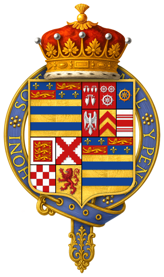 Coat of arms of Sir Henry Manners, 2nd Earl of Rutland, KG Quarters based on the arms on Rutland's tomb at St. Mary's Church in Bottesford, Leicestershire